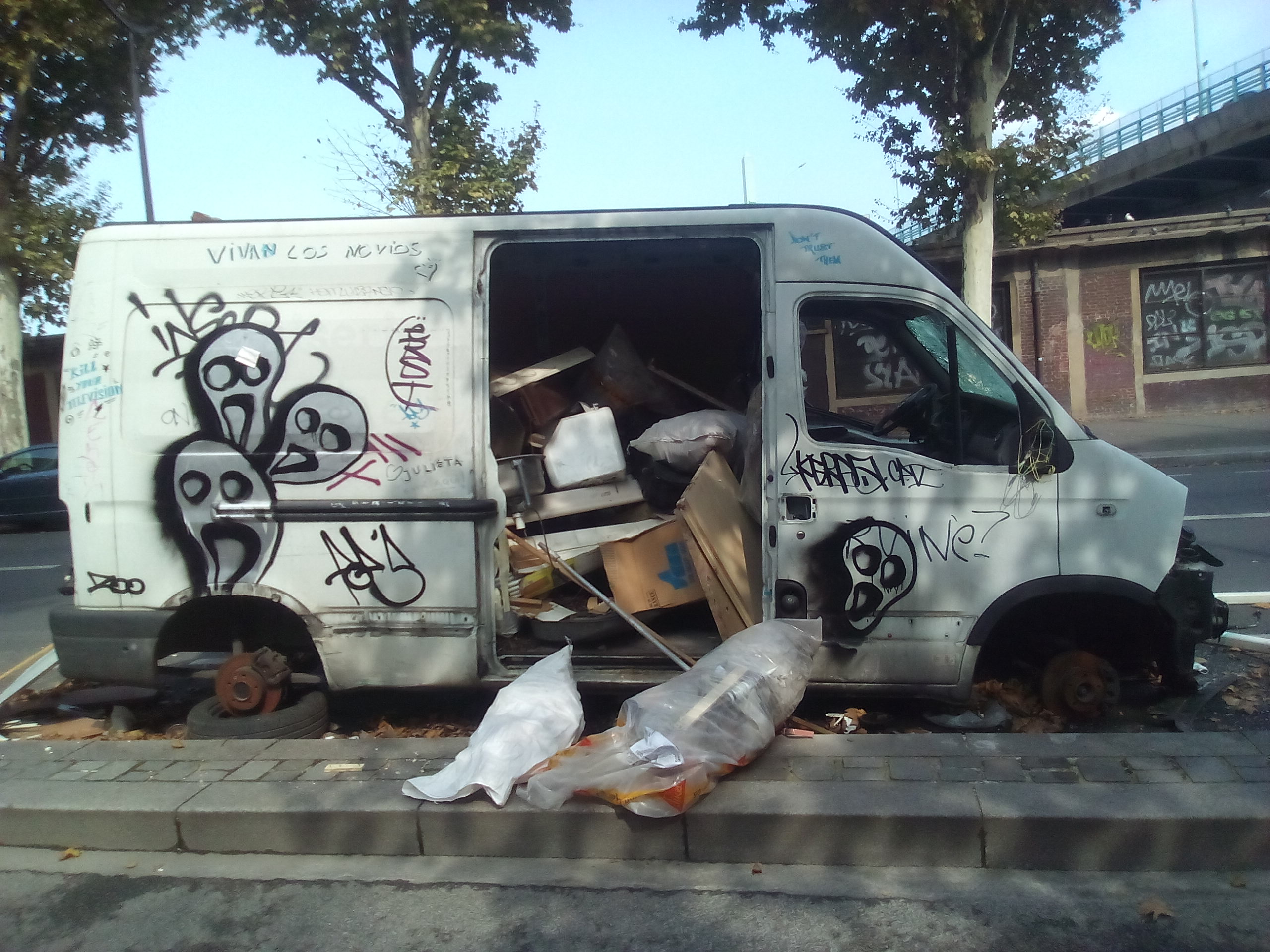 wrecked van - side view - urban wreckage